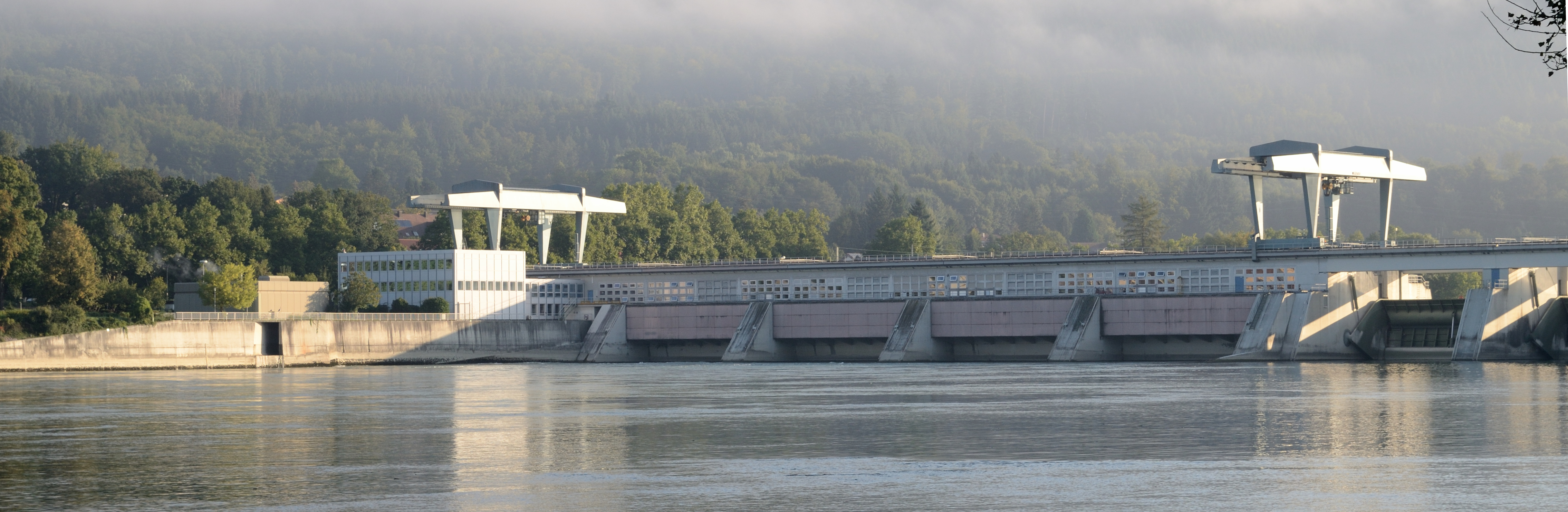 Bad Säckingen: power plant